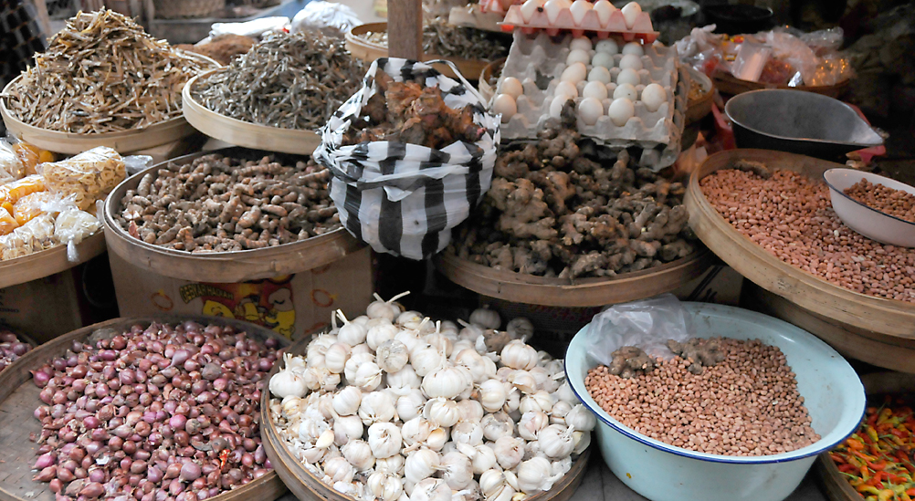 Balinese Spices. Sumberkima market, North Bali.